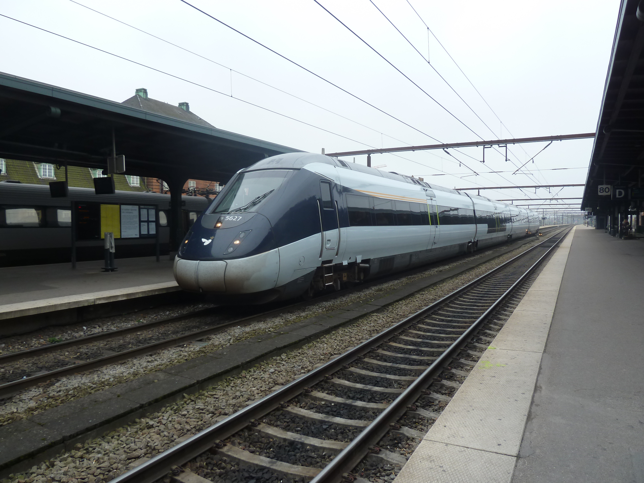 Diesel multiple unit IC4 27 in Odense in Denmark.